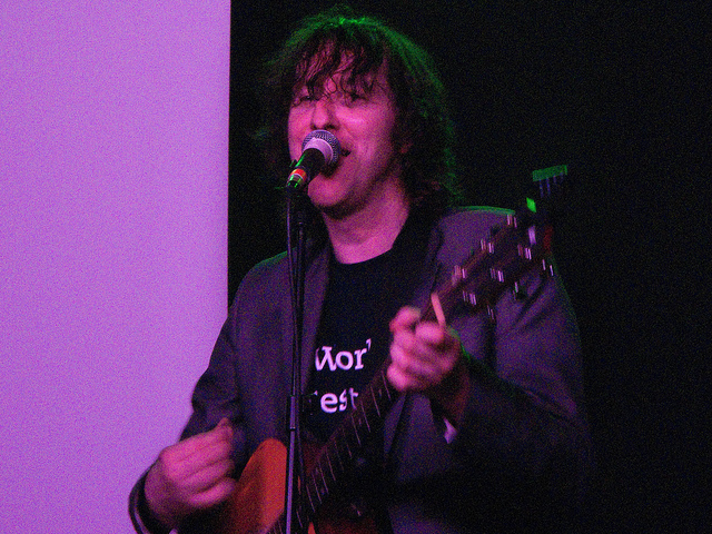 Jim Bob performing an acoustic set at The Garage in Islington, London.